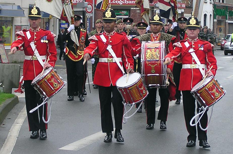 DWR Drums platoon lead the Duke of Wellington's Regiment (West Riding) through Erquinghem Lys, France to The Town Hall to receive the Keys to The town.